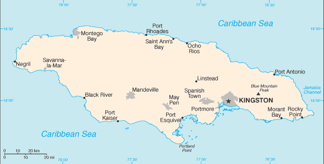 Map of Jamaica showing major cities.